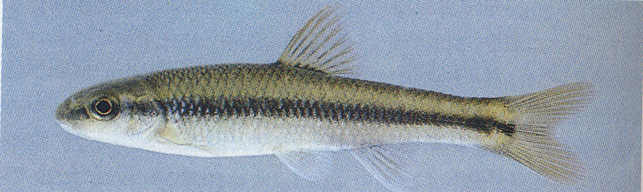 A river chub (Nocomis micropogon), a common minnow of creeks, streams, and rivers of North America.